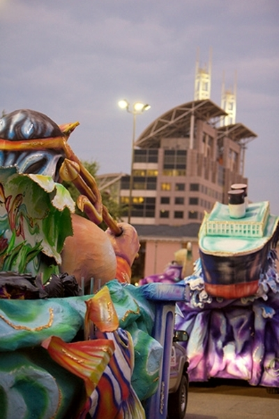 Order of Inca parade during Carnival in Mobile, Alabama.